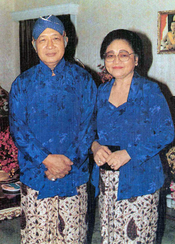 President Soeharto and first spouse Siti Hartinah in Javanese traditional attire.